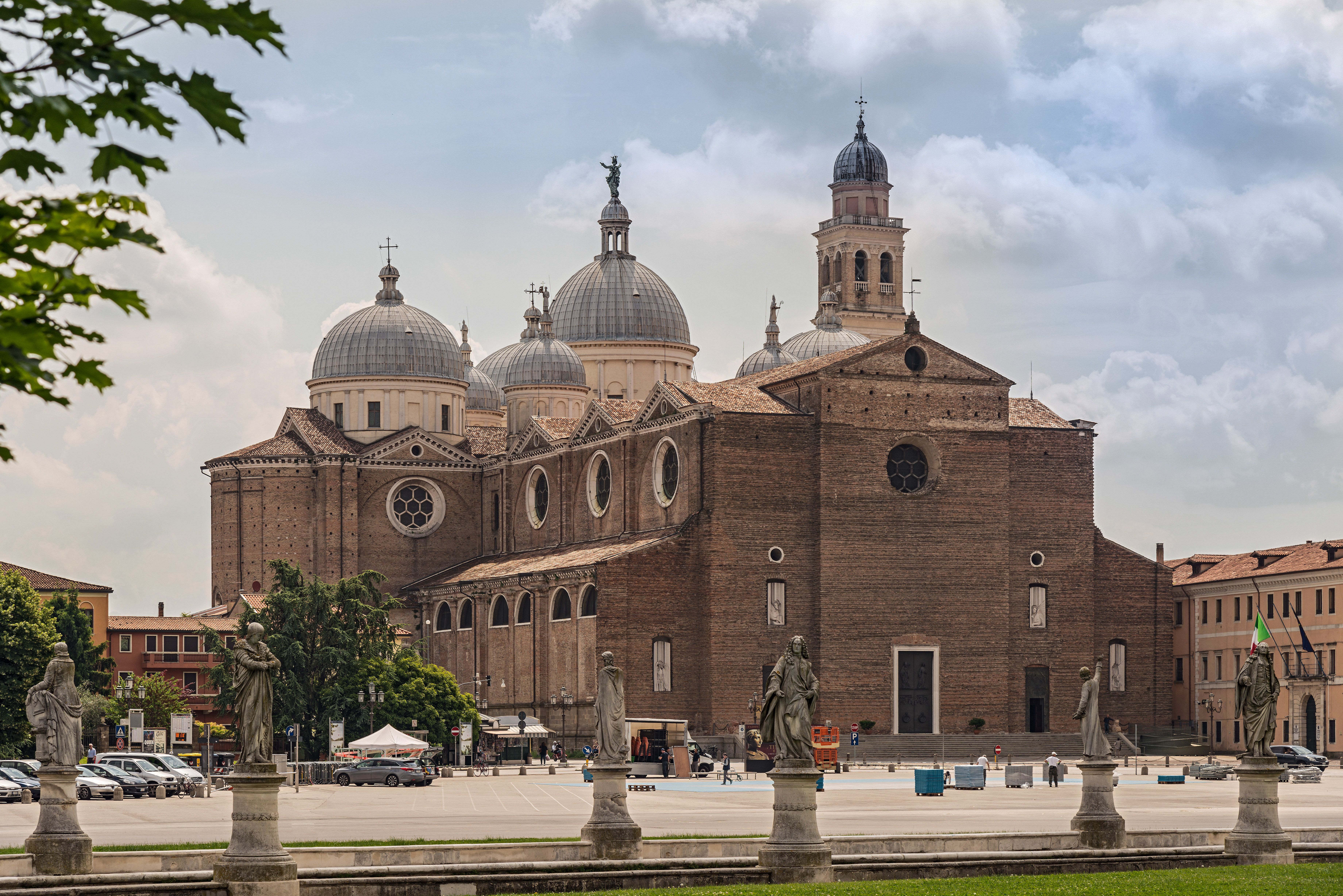 Abbey of Santa Giustina in Padua - view from Prato della Valle.